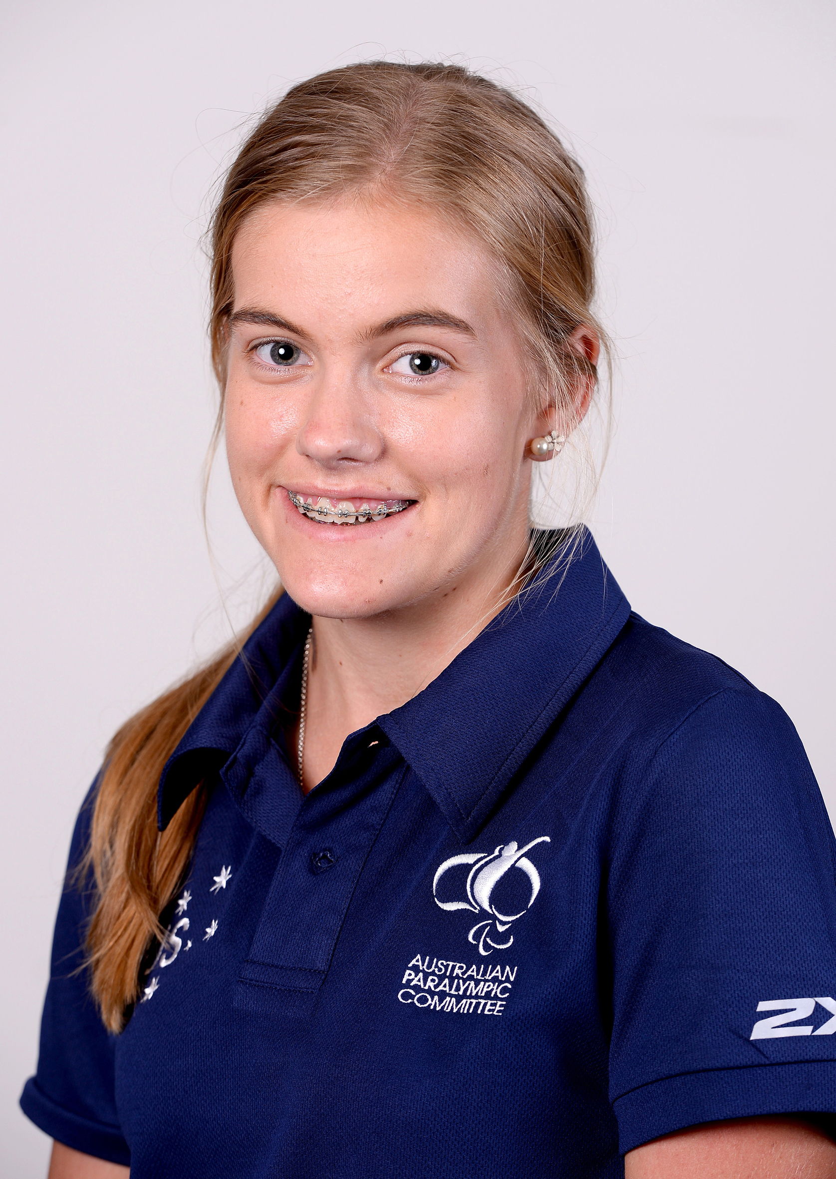 Portrait photograph of Sarah Walsh taken at team processing session for shadow members of 2016 Australian Paralympic team